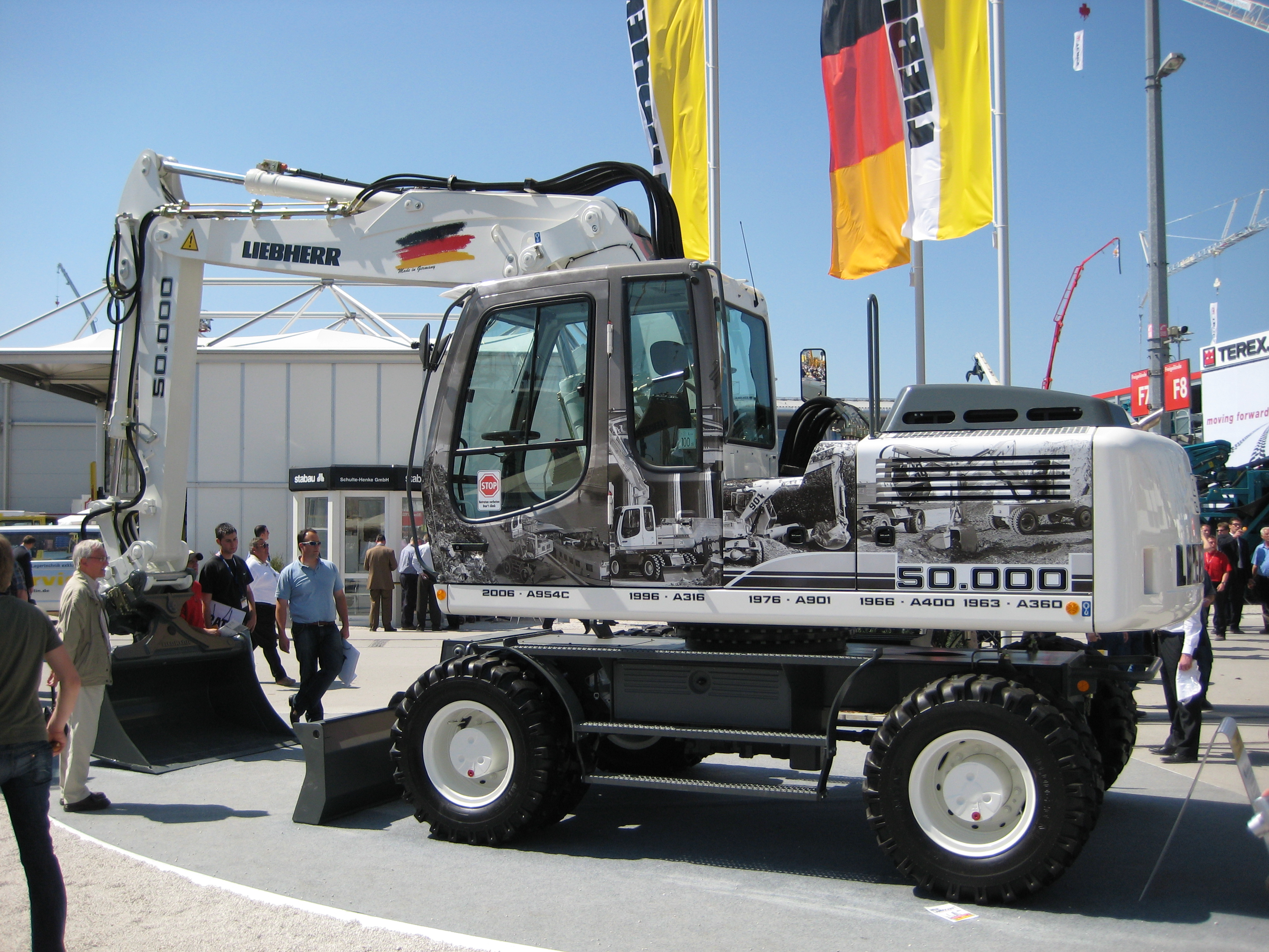 BAUMA 2007, Excavator, Liebherr